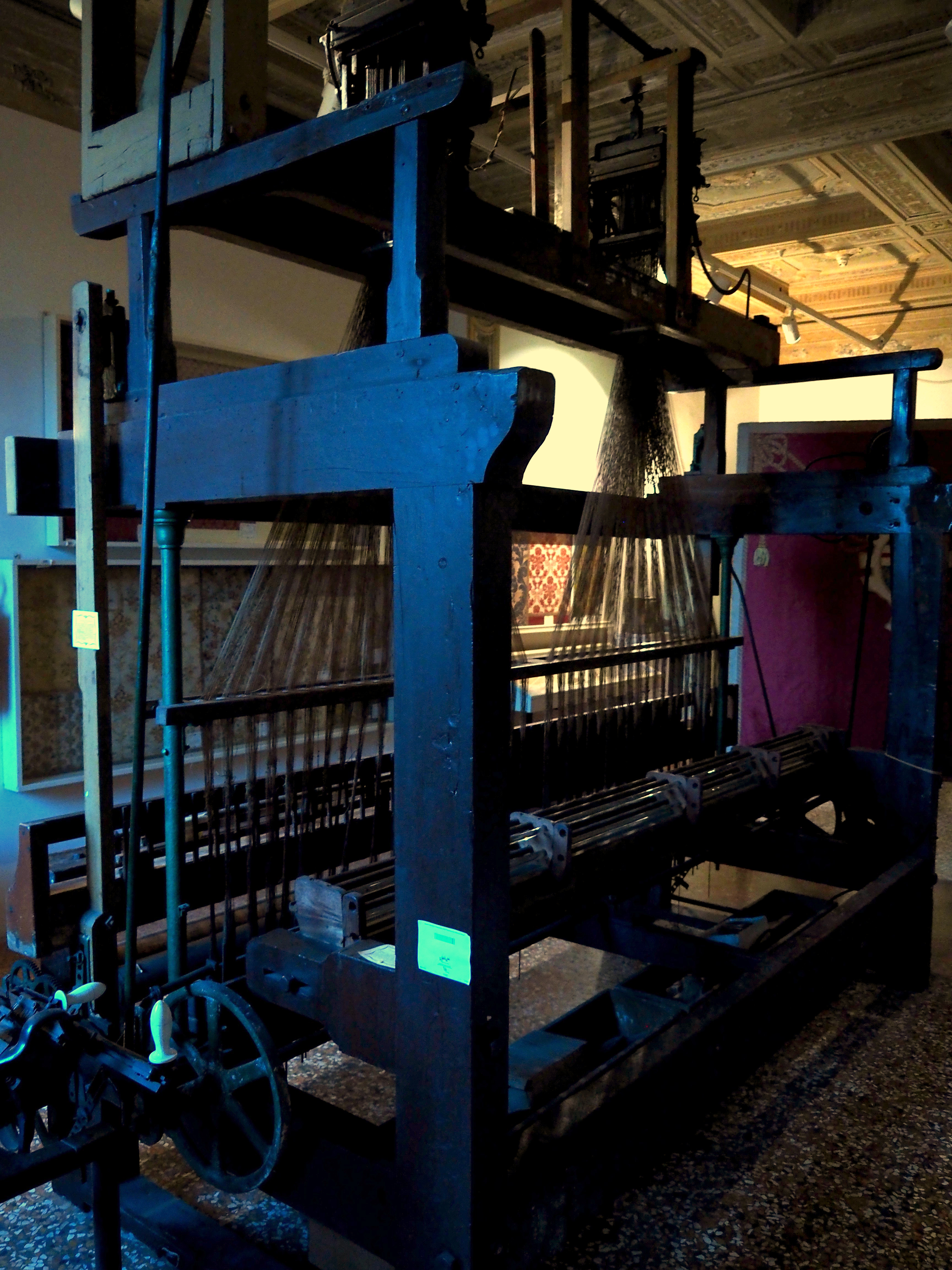 This is a photo of a monument which is part of cultural heritage of Italy.